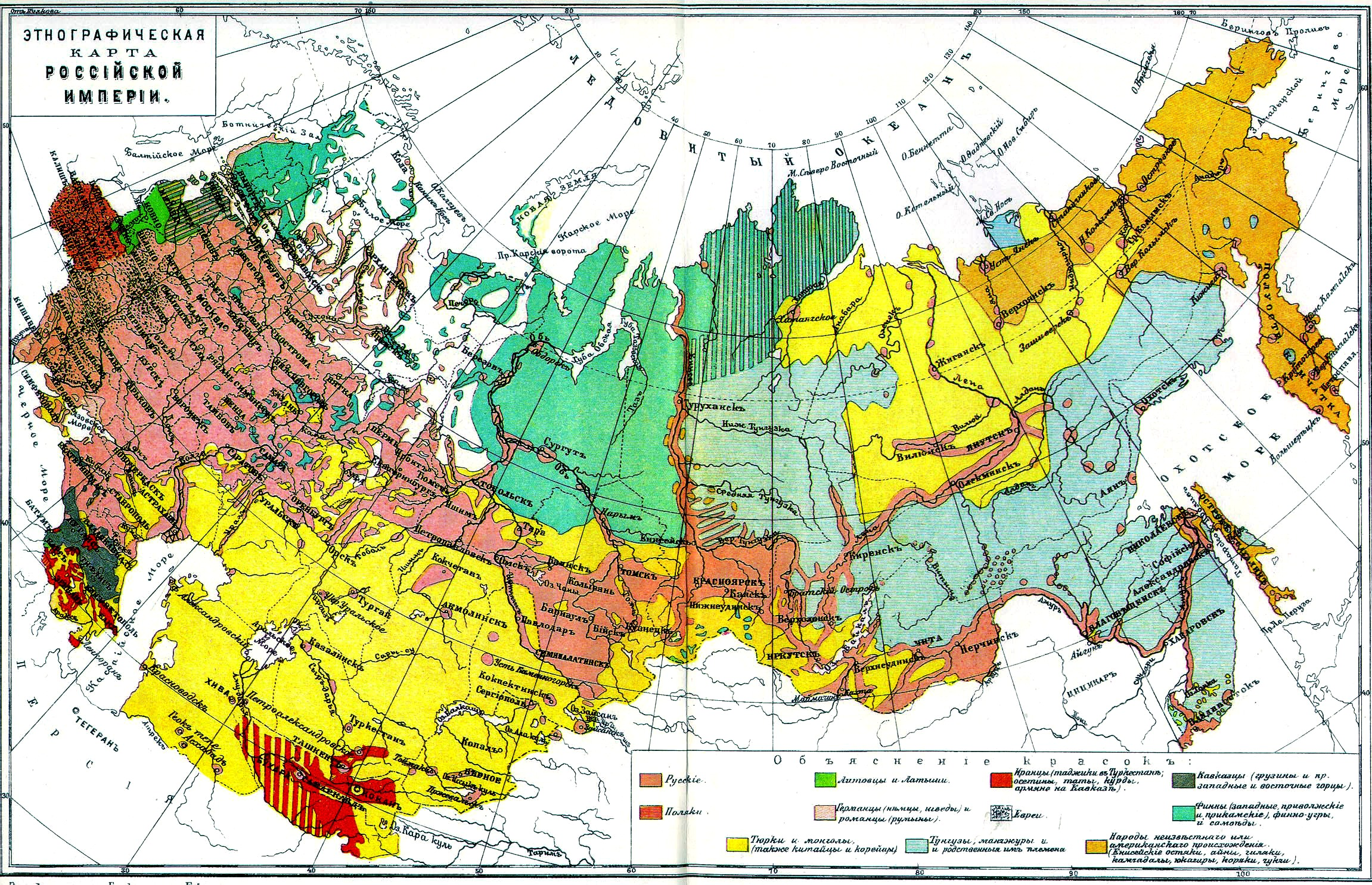 Ethnographic map of Russian Empire. The end of XIX century.